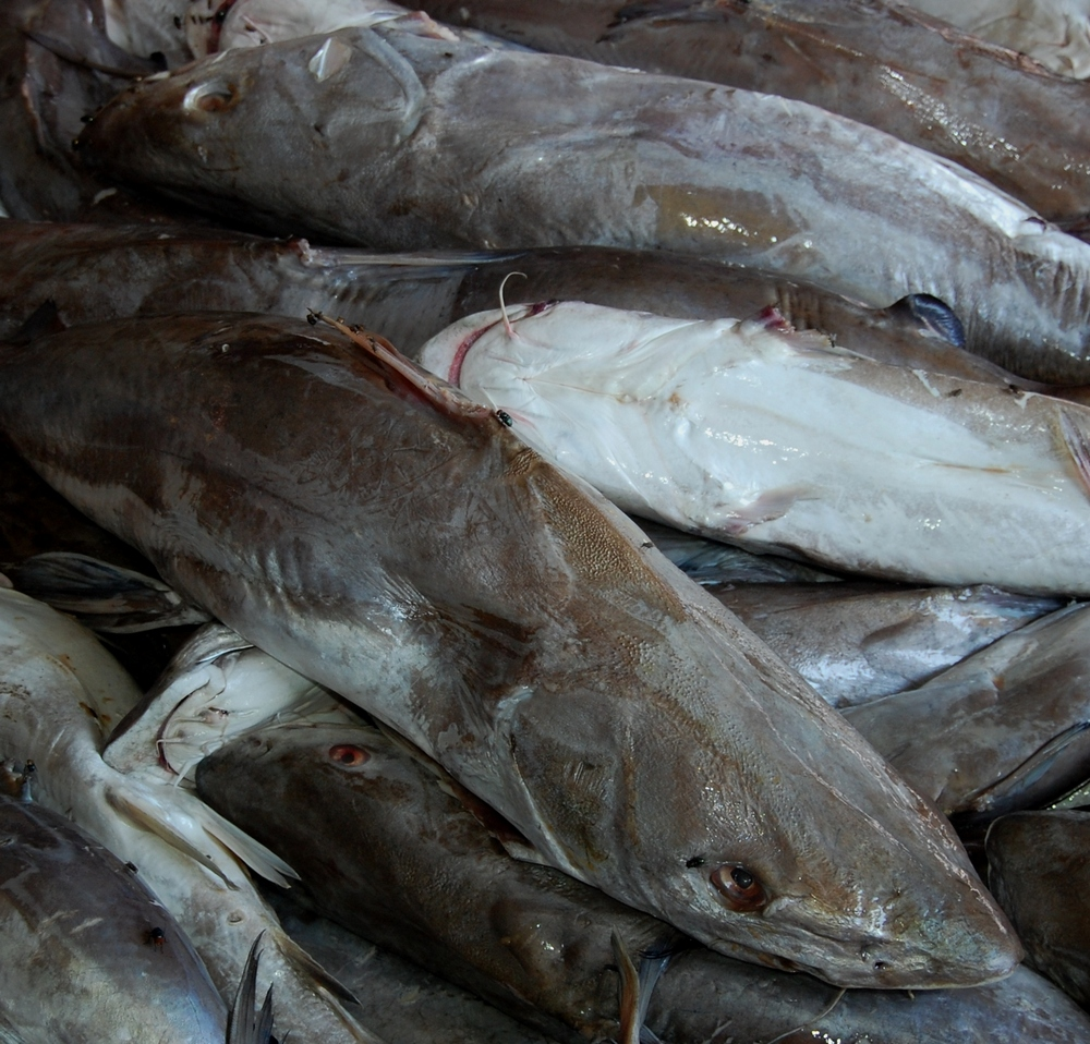 Arius sp. waiting for processing. Muara Angke, Jakarta.